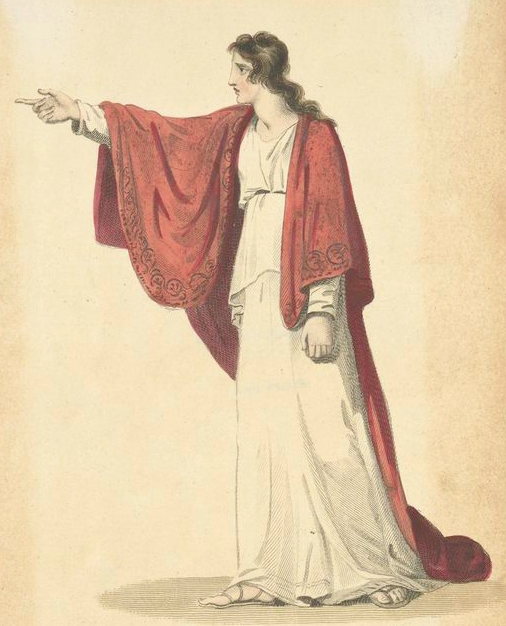 Italian contralto Giuseppina Grassini (1773-1850) as Orazia in Cimarosa's Gli Orazi e i Curiazi, which premiered at La Fenice on 26 December 1796.